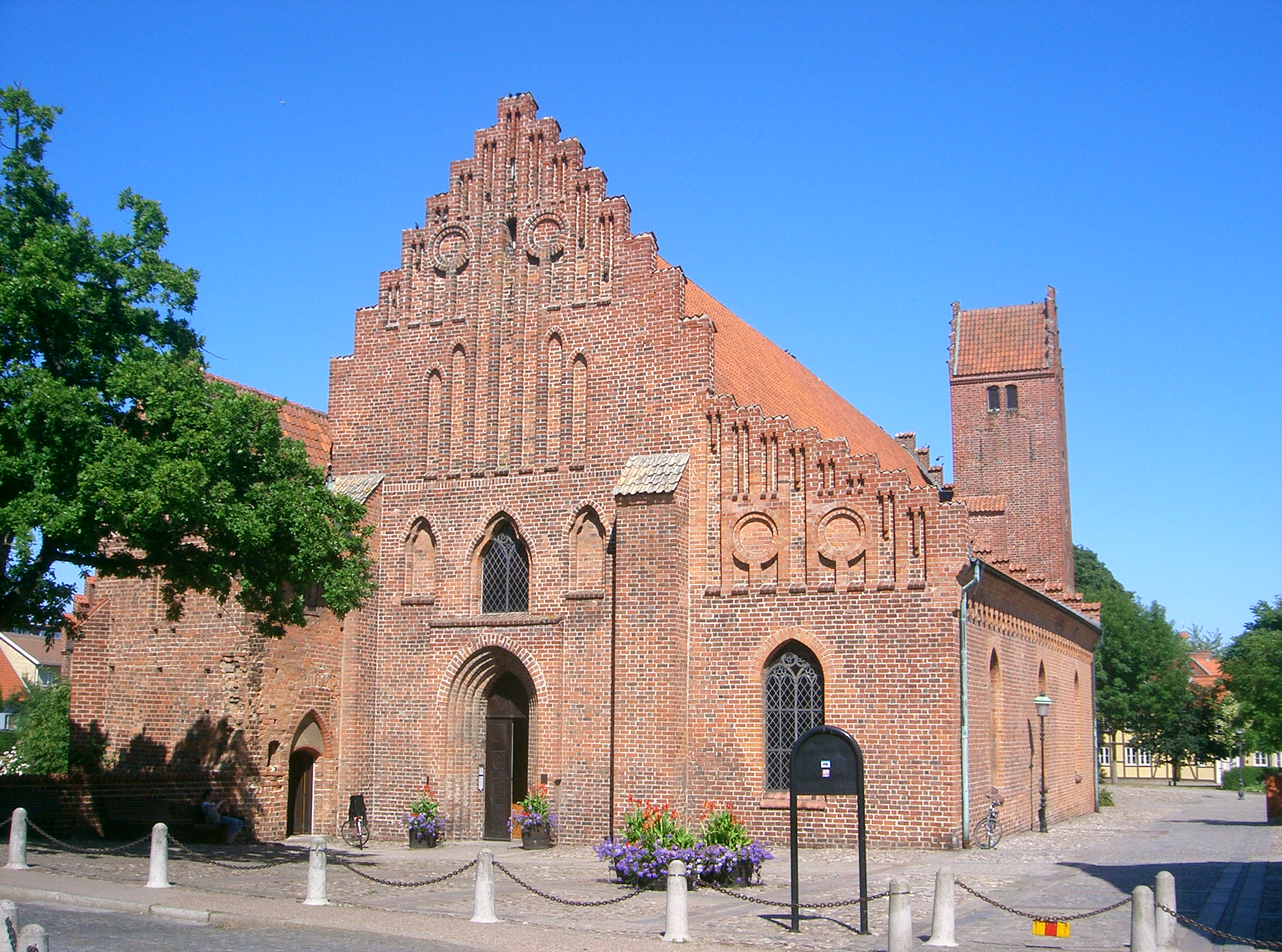 Ystad, Sweden. Church St. Peter, former Franciscan church. View from south-west.